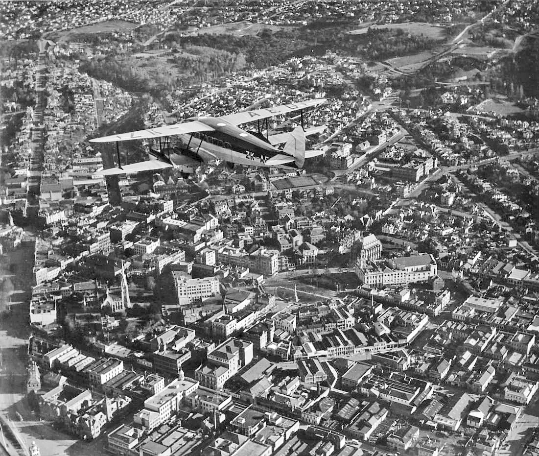 de Havilland DH86 Express DH86 Express ZK-AEG 'Karoro' was purchased by Union Airways of New Zealand in 1935. Photographed flying over Dunedin before World War 2. possibly on 5 Jan 1936 The aircraft saw service between Palmerston North and Dunedin and Blenheim and Christchurch Initially registered ZK-AEG 14 August 1935. Arrived at Lyttelton aboard 'Waipawa' 30 Nov 1935 Registered to Union Airways Dec 12 1935 and named 'Karoro'. Impressed into RNZAF 13 Oct 1939 as NZ 553.